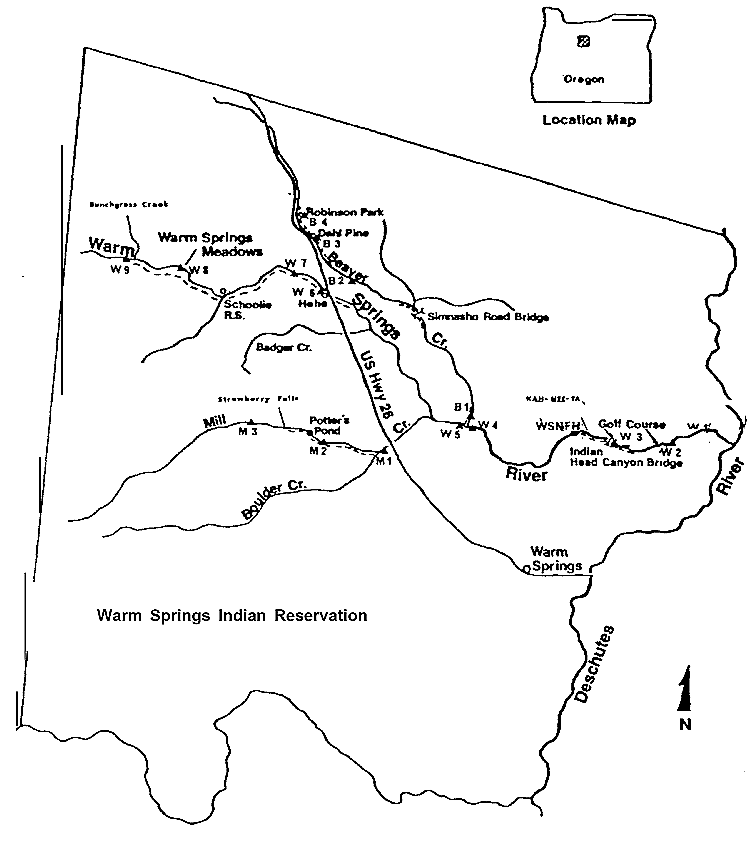 Instream Flow Study of the Warm Springs River, Report to Bonneville Power Administration, Contract No. 1998BI08332, Project No. 199802400 captured map on page 8 with Adobe Acrobat, processed with Adobe Photoshop 9.0.1 to reduce 50%, sharpened and convert to PNG